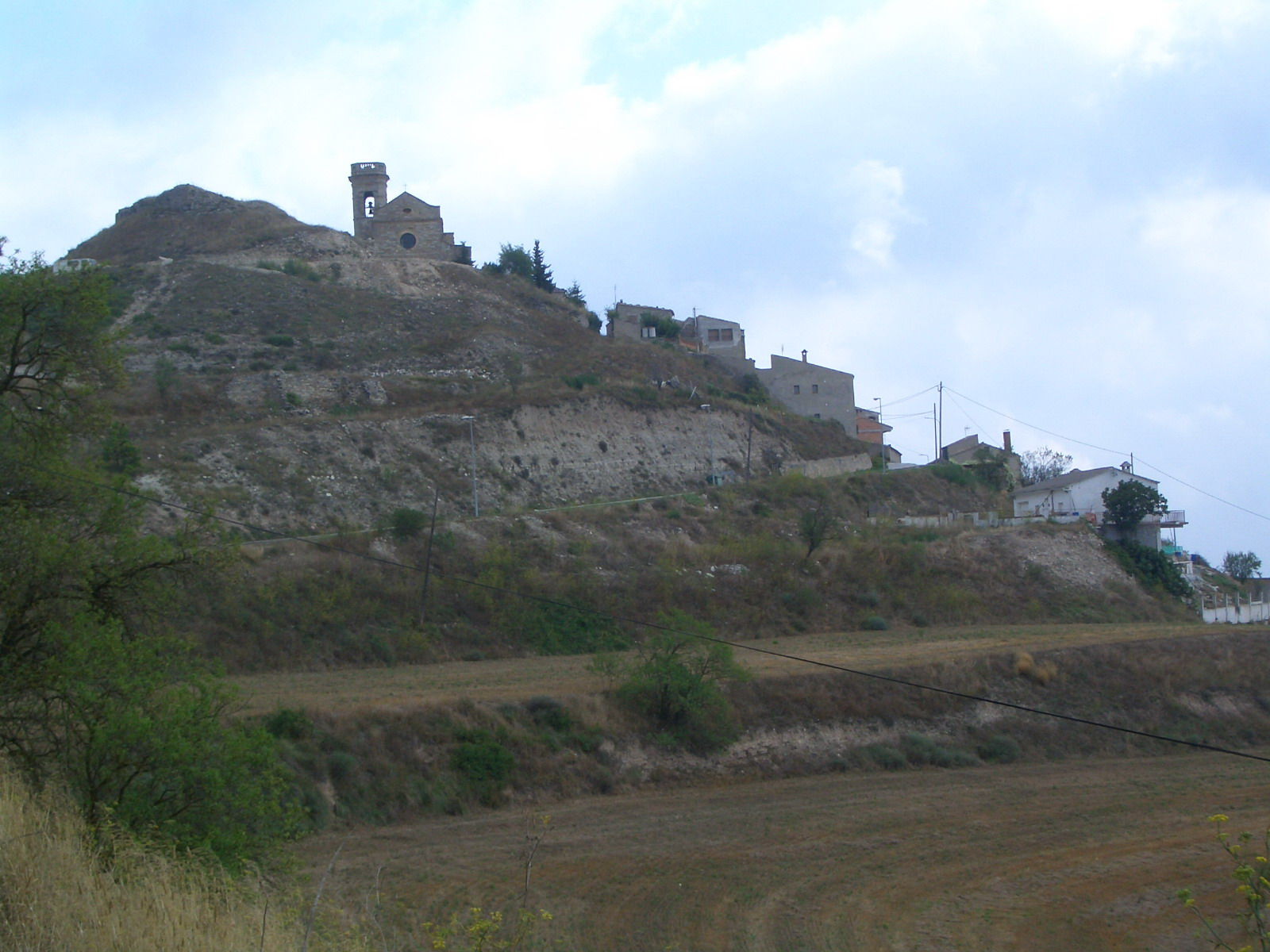 Picture of Argençola (Anoia, Catalonia)